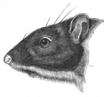 Head of the Martinique giant rice rat, Megalomys desmarestii.